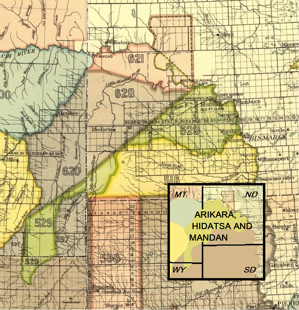 Map indicating the Arikara, Hidatsa and Mandan Indian territory as described in the Treaty of Fort Laramie (1851), North Dakota